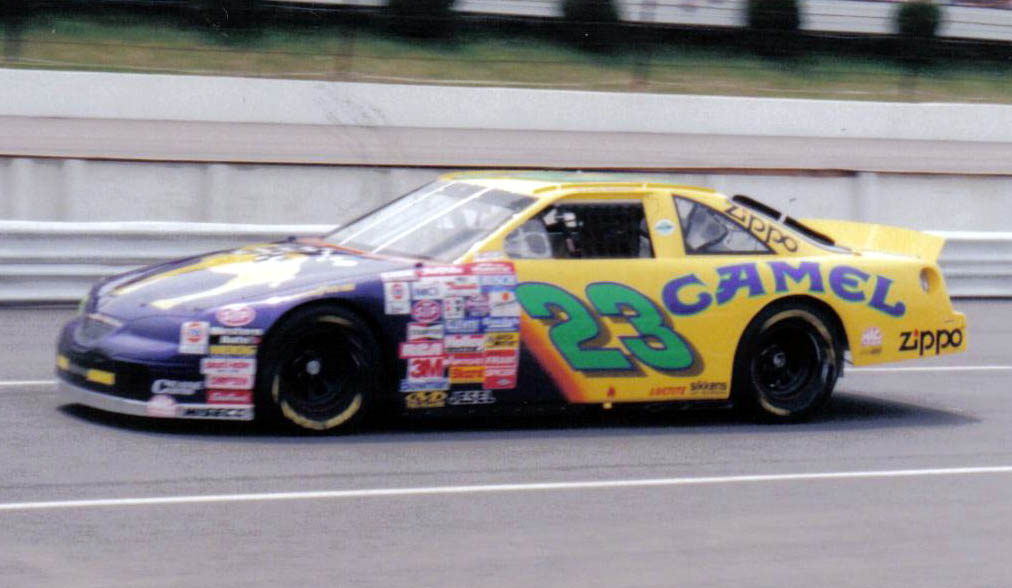 NASCAR driver Jimmy Spencer at Pocono in 1997.